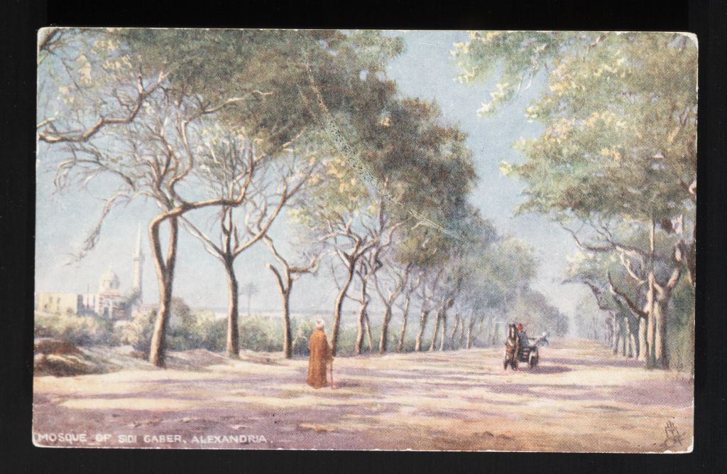 Mosque on left, dirt pathway with man and horse-drawn carriage